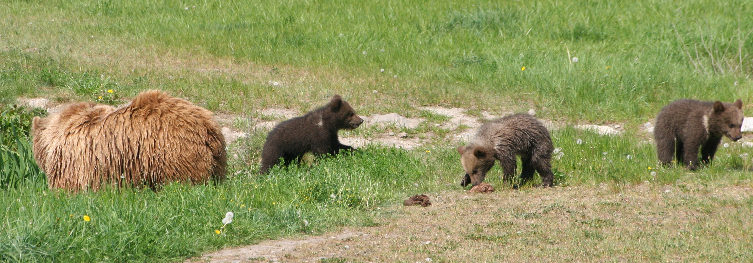 Swedish female brown bear Mia with her daughters Maja, Mette, and Molly in Wildpark Poing near Munich, Germany.